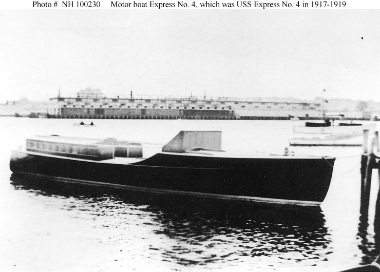 The private motorboat Express No. 4 at the time of her comp;etion, prior to her service as the United States Navy patrol vessel